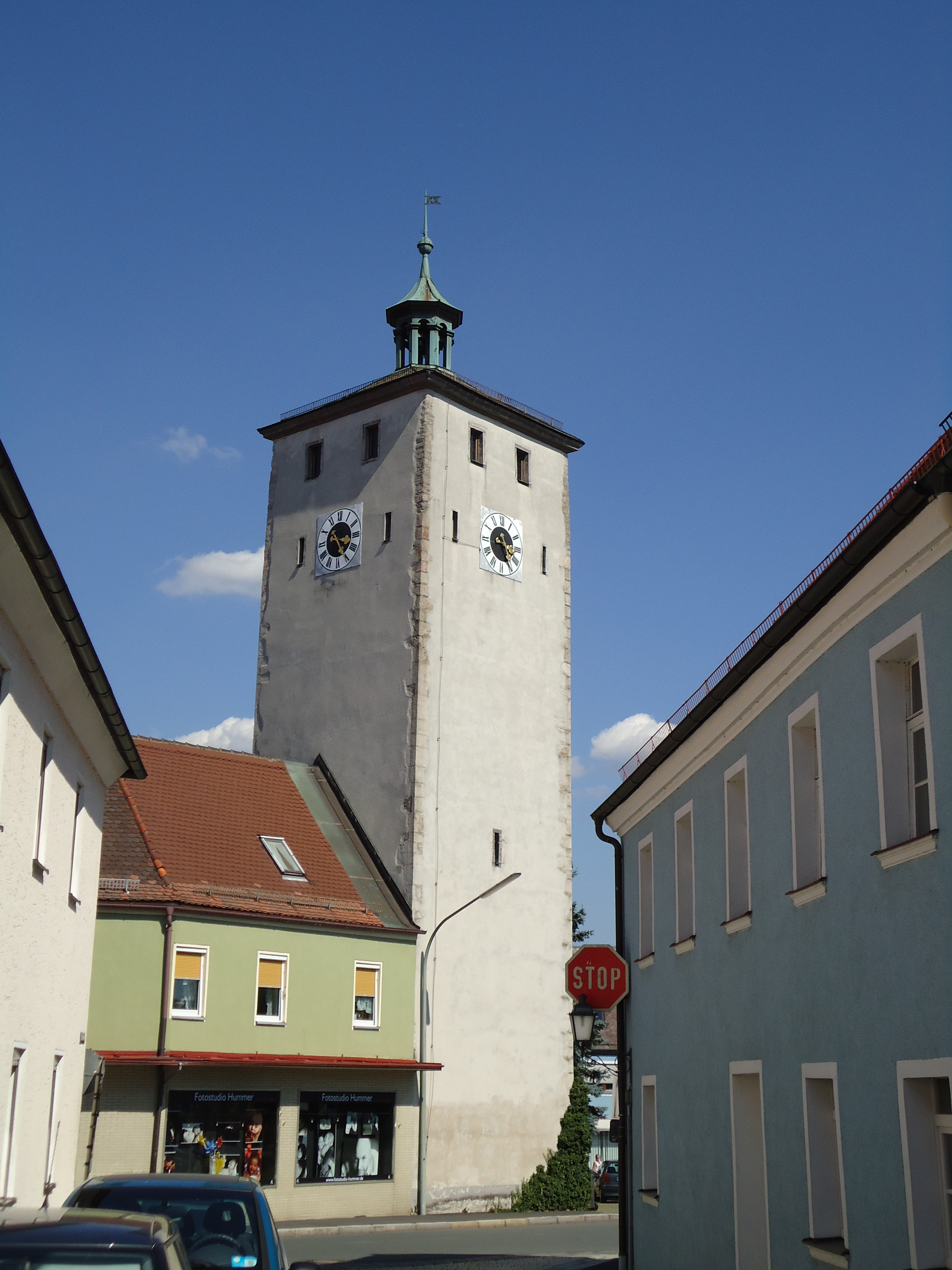 Klettnersturm